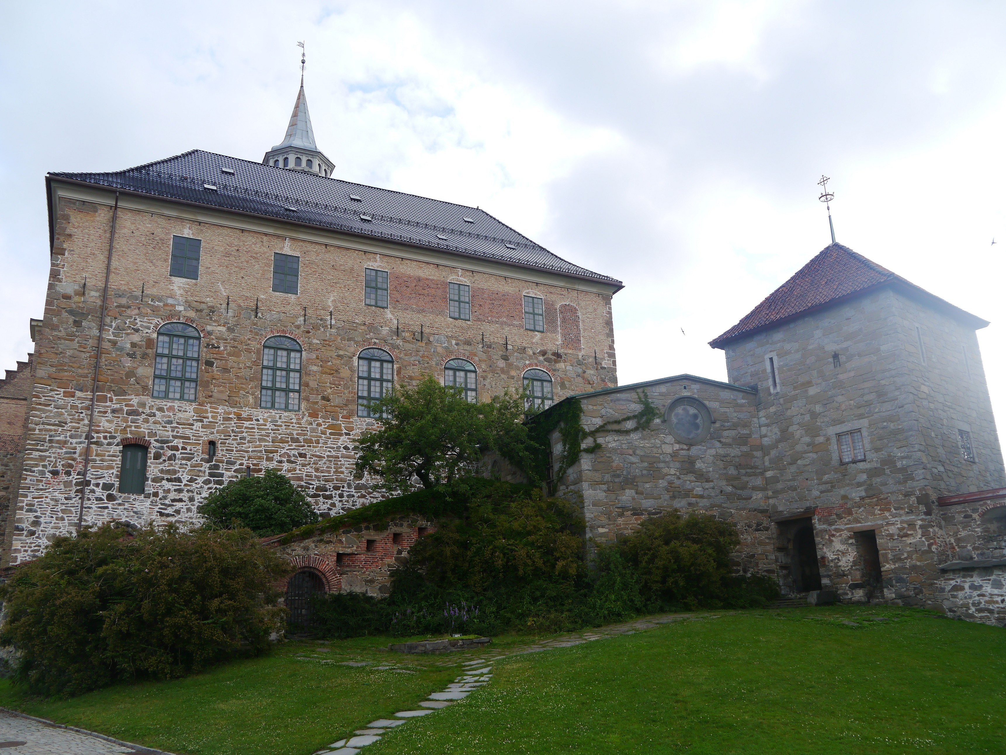 Akershus Fortress, Oslo, Southern Norway